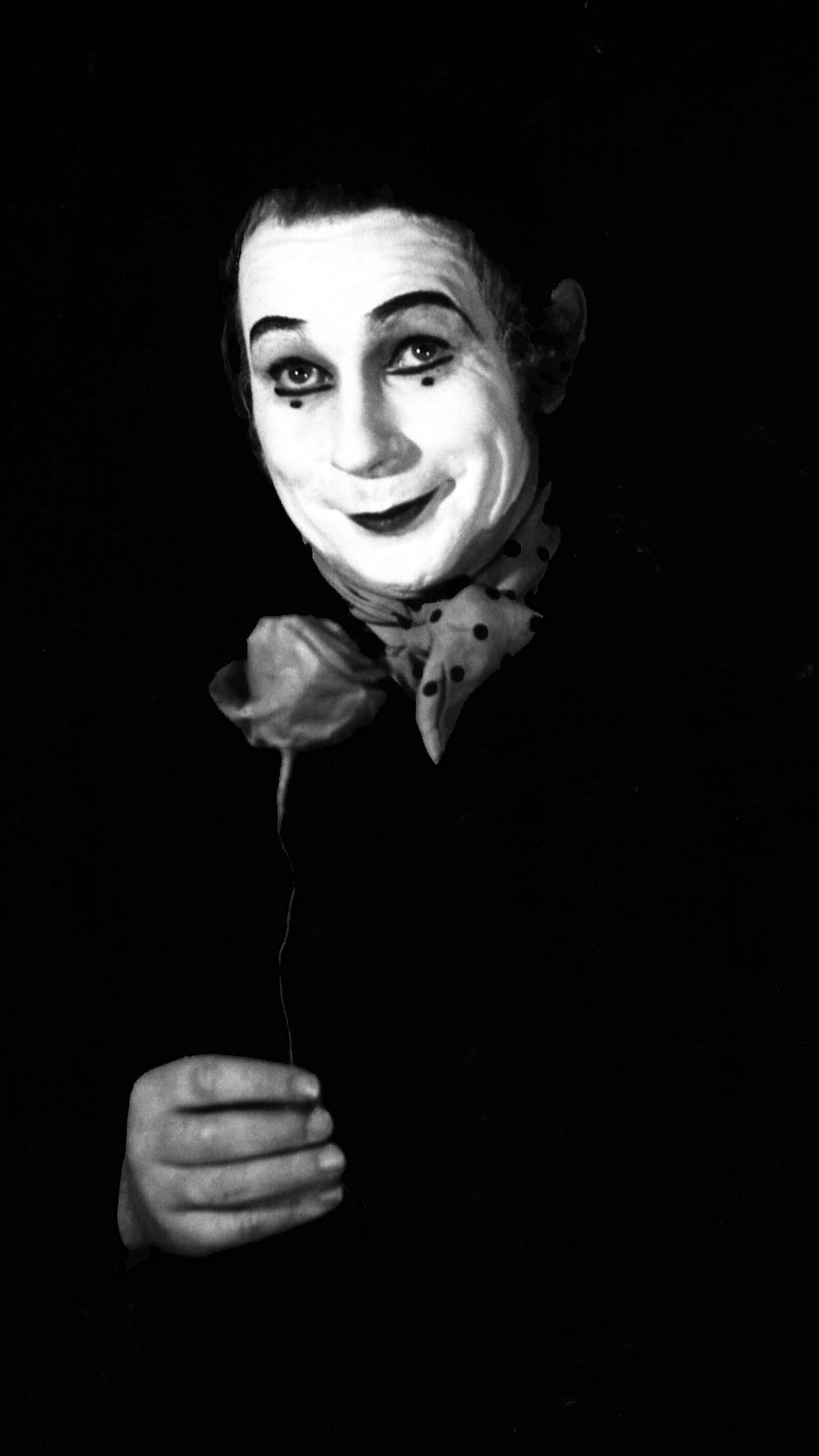 Lindsay Kemp taken at the photographer's studio, London